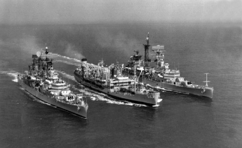 The U.S. Navy guided missile cruiser USS Springfield (CLG-7), flagship of VADM Charles K. Duncan, Commander Second Fleet and NATO's Striking Fleet Atlantic, and USS Little Rock (CLG-4), flagship of VADM William A. Martin, commander Sixth Fleet and NATO's Striking Force South, are refueled in the Mediterranean by Fleet oiler USS Chikaskia (AO-54).